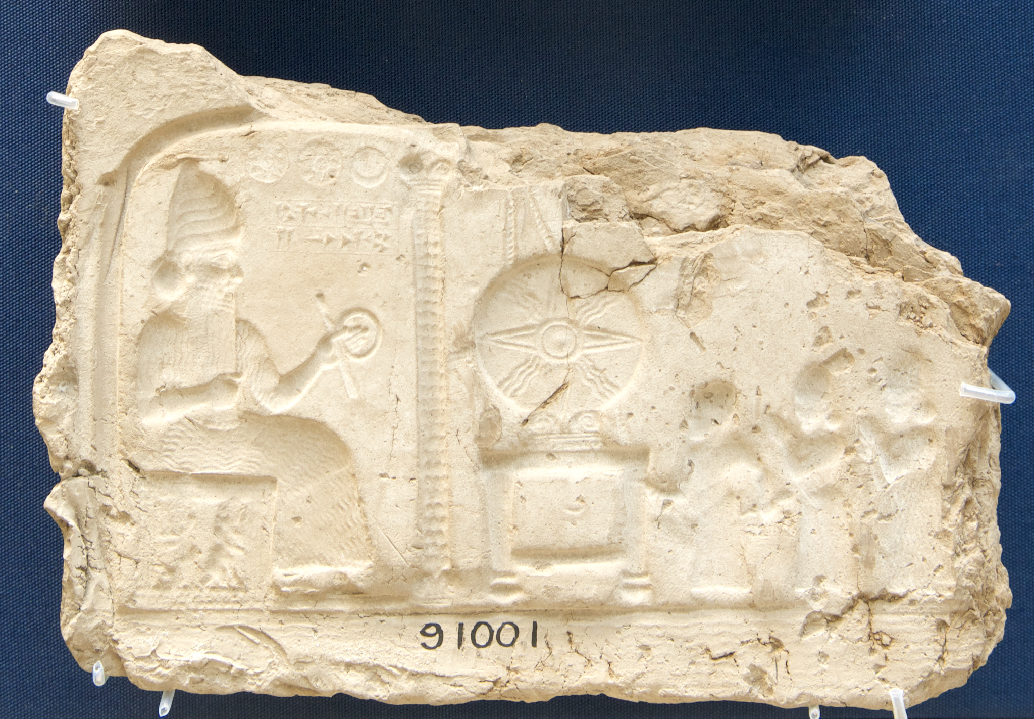 Fired clay cover of the Tablet of Shamash, originally made by Nabu-apla-iddina, broken and replaced by Nabopolassar. Found alongside the tablet.